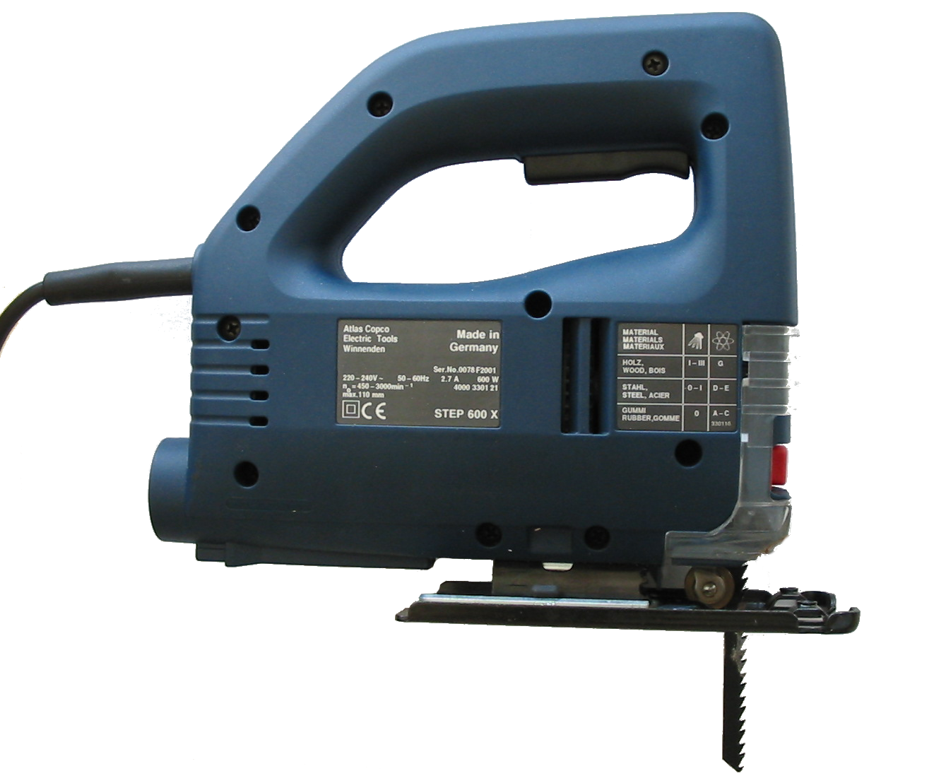 Jigsaw